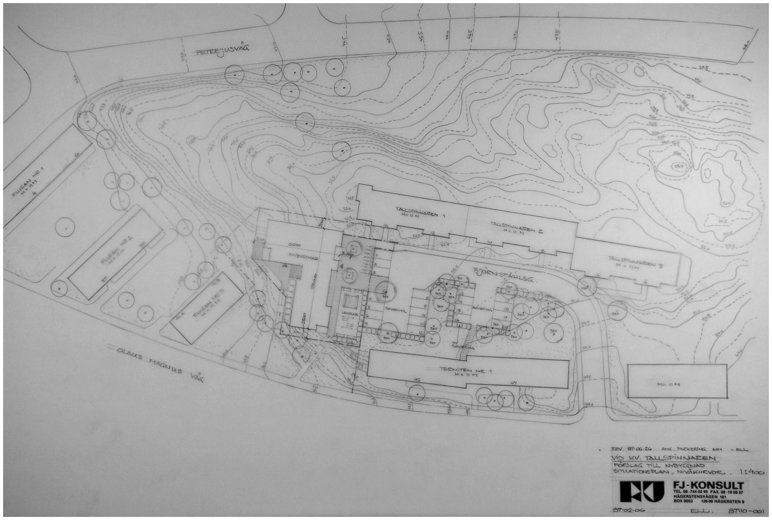 Site plan for part of Hammarbyhöjden in Stockholm